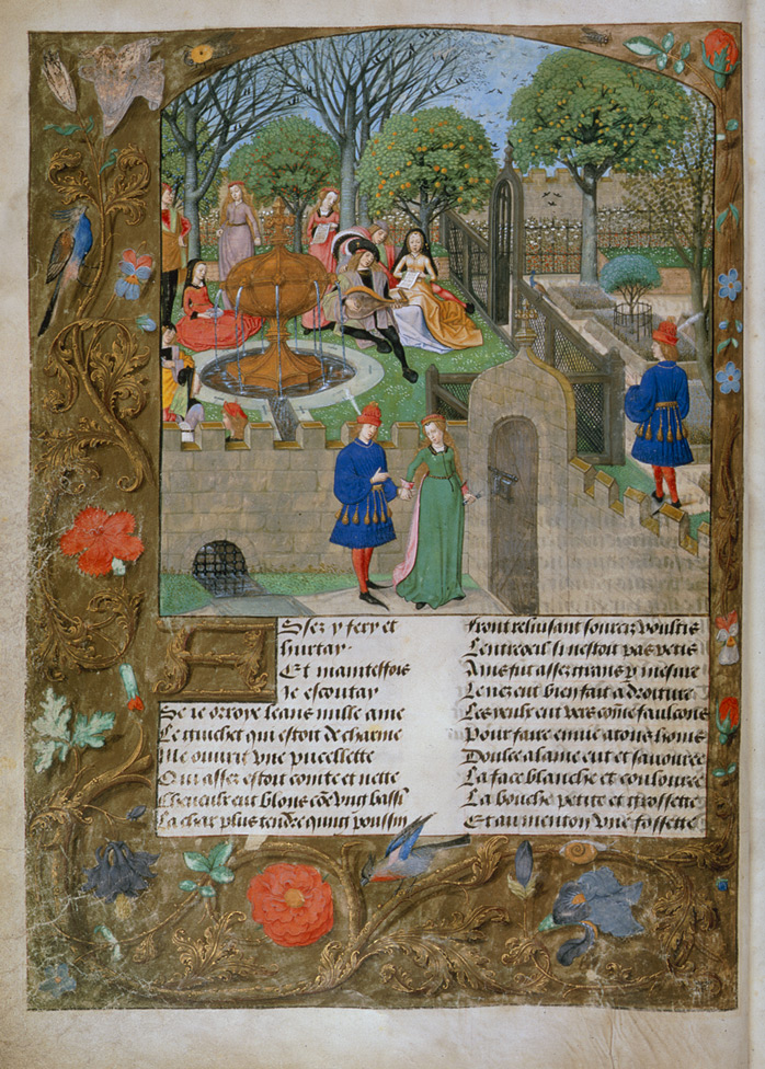 Manuscript from the end of the 15th century illustrating "Roman de la Rose", a popular mid-13th-century poem. "The Romance of the Rose" was composed in France, at the height of the age of chivalry and courtly love, by Guillaume de Lorris. The author's avowed intention was to expound the "whole art of love". His story is set within a walled garden belonging to a nobleman called Déduit - the French word for 'pleasure'. Here the narrator endeavours to reach the rose that symbolises his lady's love. On the way he encounters a series of allegorical characters, each an expression of the object of his affections, who provide a charming commentary on the psychology of romantic love. The fictional garden was planted with date palms and spice trees, as well as peaches, quinces, cherries and nuts. It was carpeted with flowers of every colour and season, and inhabited by gentle creatures of the forest: deer, rabbits and squirrels. 'Roman de la Rose' was left unfinished when Guillaume de Lorris died and was completed, some forty years later, by Jean de Meun Clopinel.